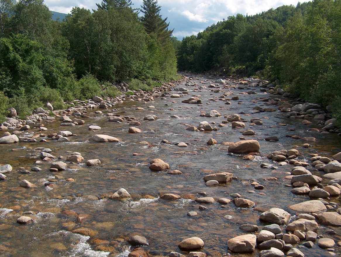 The Peabody River in Gorham, New Hampshire. Photo by Ken Gallager, June 21, 2008.